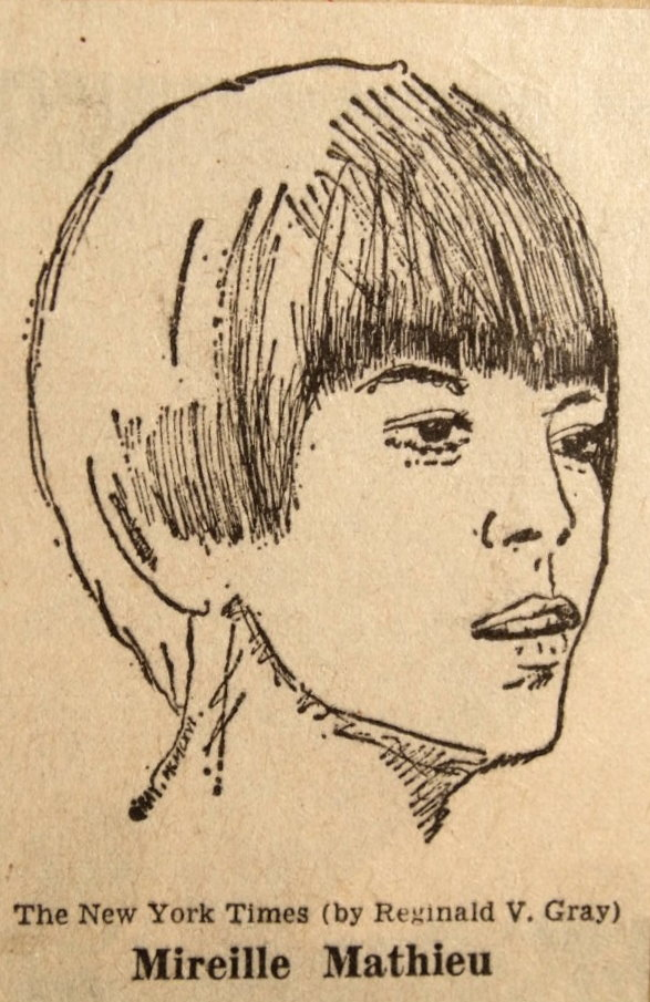 drawing commissioned by The New York Times